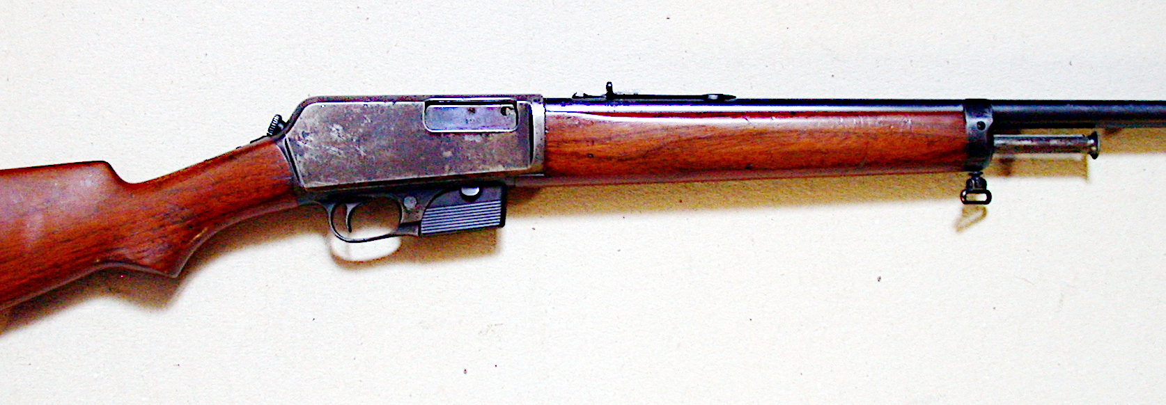 Winchester Model 05 self loading Rifle cal .32 SL